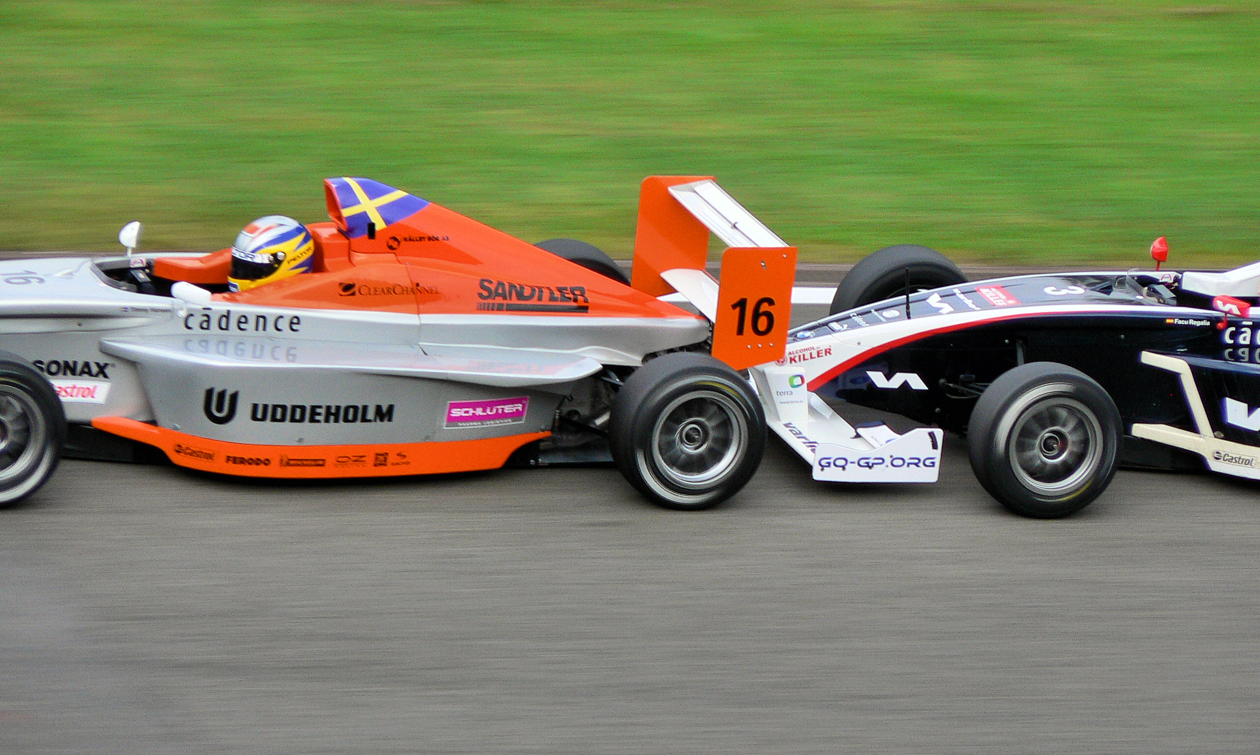 Timmy Hansen and Facundo "Facu" Regalía at Circuit de Spa-Francorchamps in the 2009 Formula BMW Europe season.Original description:The shot is of Facundo Regalia about to overtake Timmy Hansen down the Kemmel straight at Spa-Francorchamps. One of the luckiest shot of the whole GP weekend... Trying to take a zoomed in panning shot of two cars travelling at over 100+ mph is very tricky (more luck than skill :-) ). I couldn't believe how close the drivers were getting. Not suppringsly two other drivers did hit each other not so long after this was taken (no one was injured but there was some animated fist shaking).